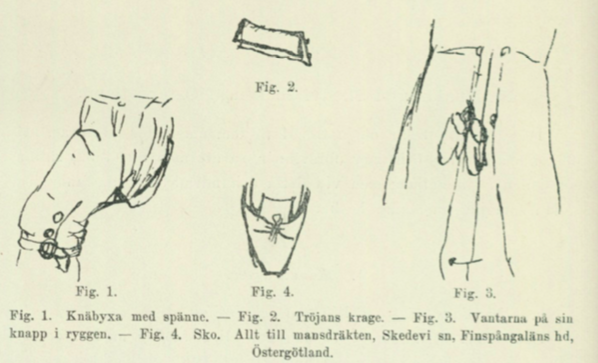 Ritning över detaljer för manlig Skedevidräkt